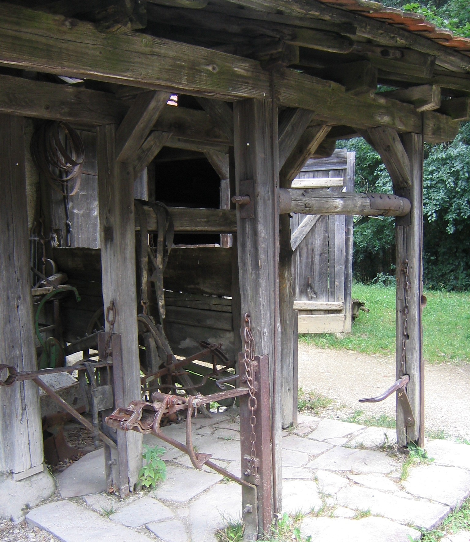 Device for treating claw diseases of cows at the Freilichtmuseum Neuhausen ob Eck